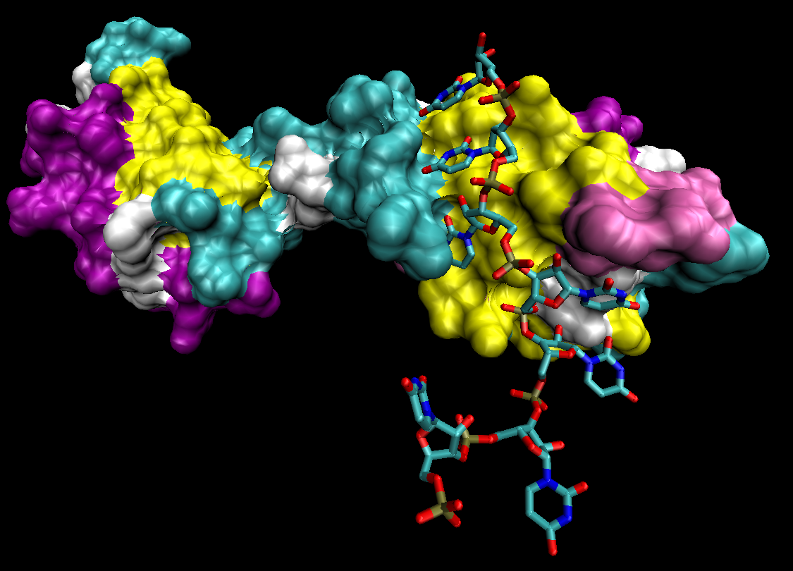 Illustration of the binding domain of the splicesome protein component U2AF bound to an RNA analog of the polypyridine tract.